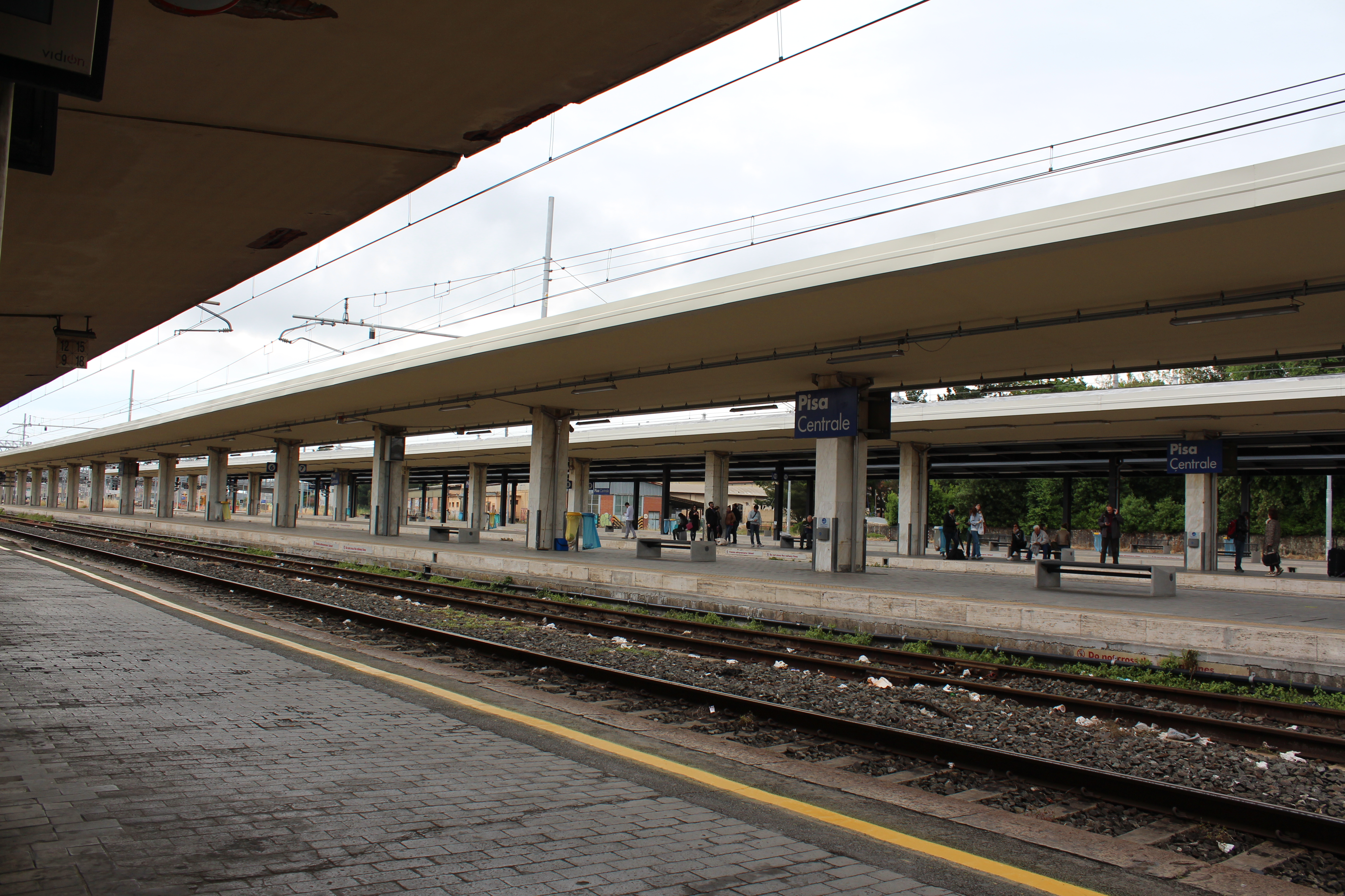 Pisa Centrale station, Pisa, Italy, May 2013